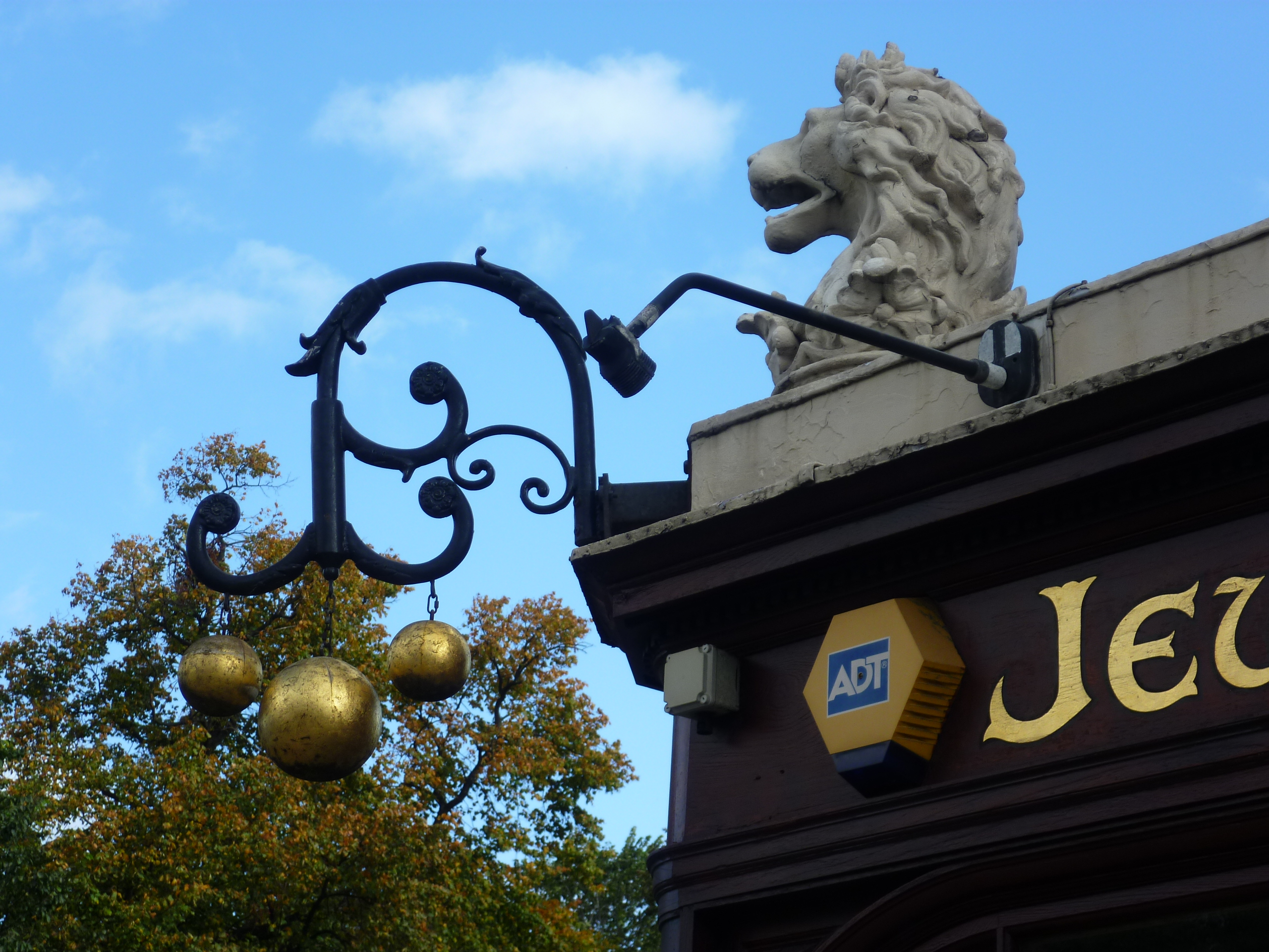 The three balls of the pawnbroker above the shop of Duncanson & Edwards, established in 1830.